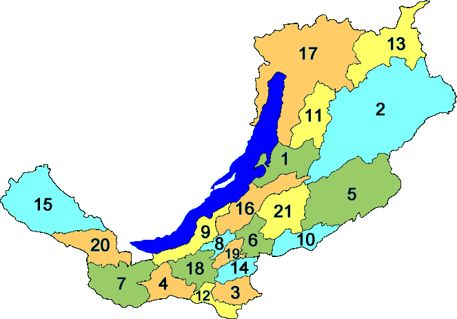 Map of areas of Buryatia